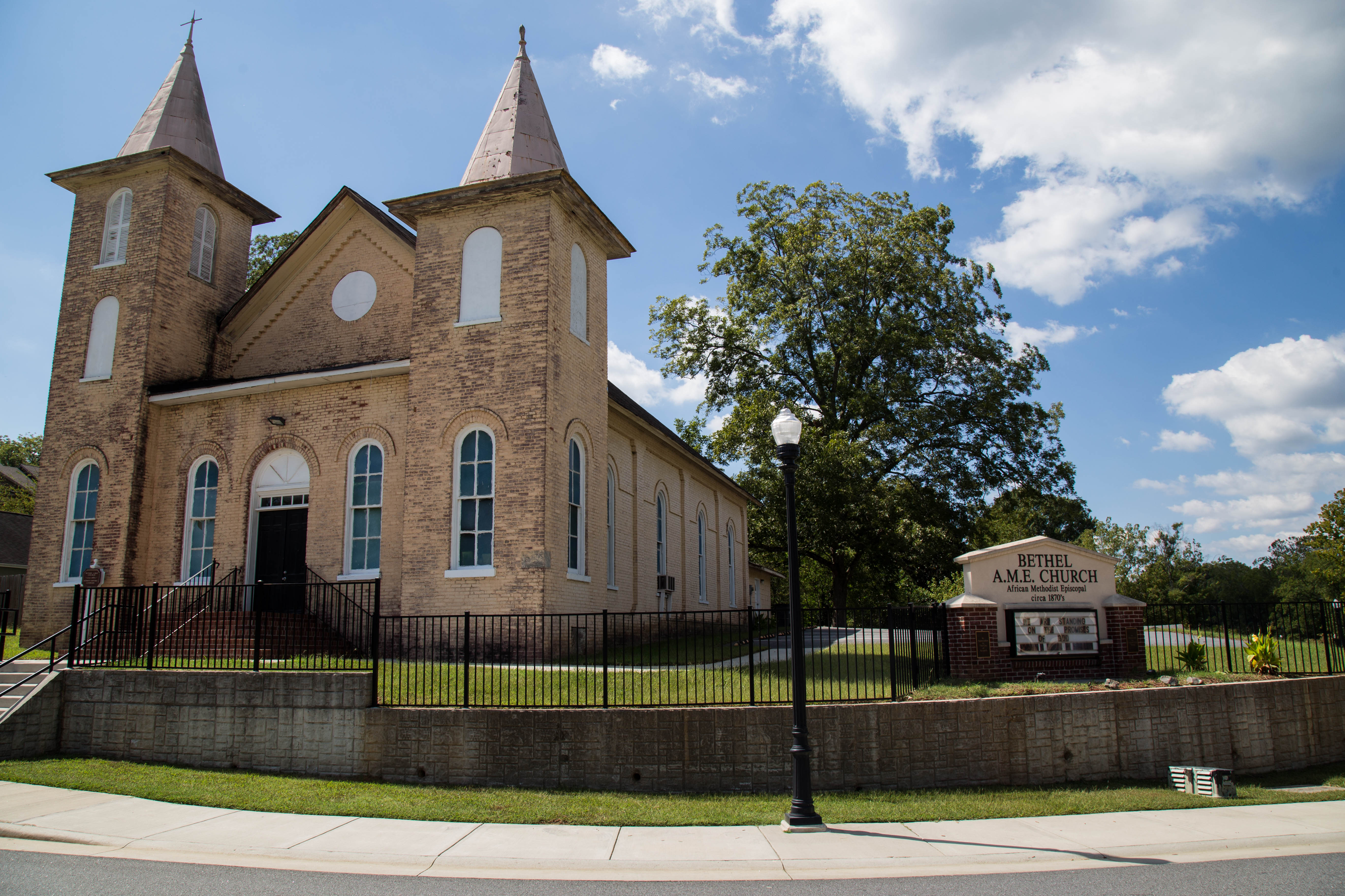 Bethel AME Church